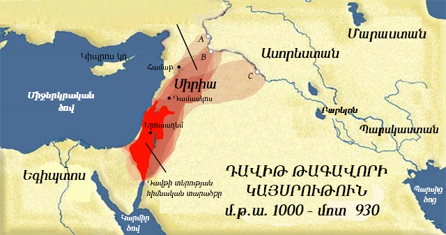 David king kingdom of Israel